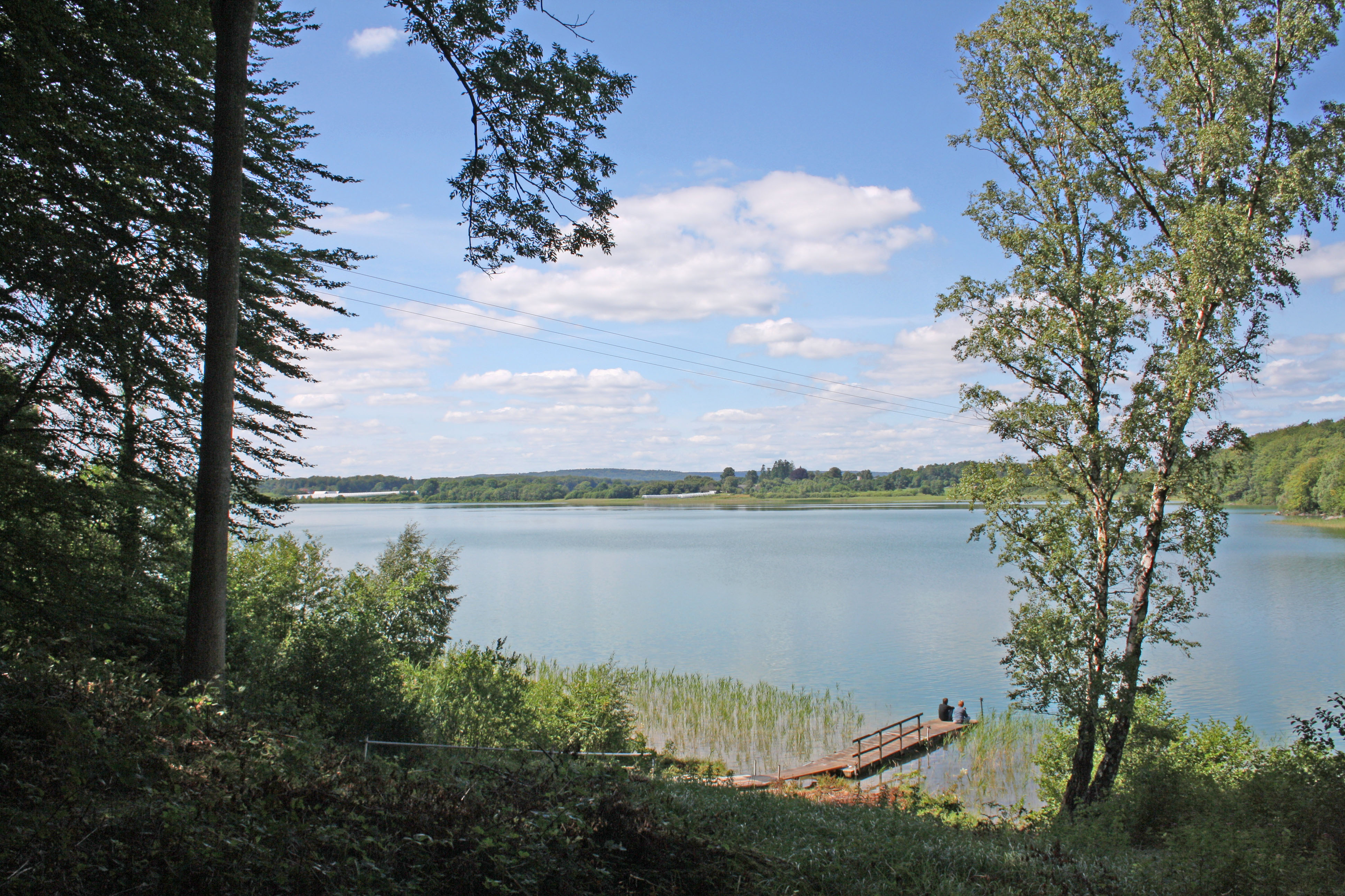 The Levrasjön lake, in the Bromölla Municipality, Scania, Sweden.